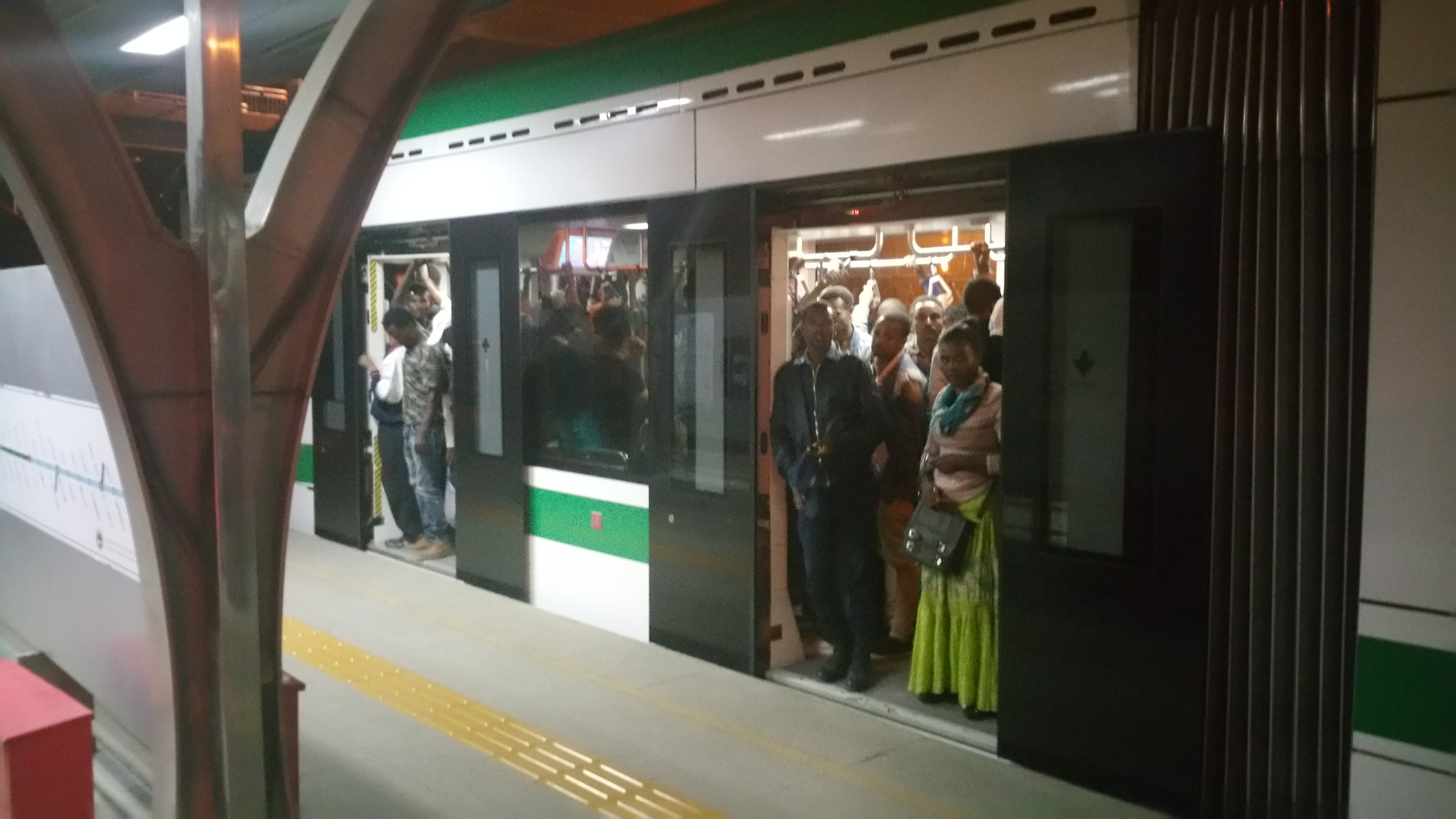 A police officer traveling on Addis Ababa light rail transport to ensure the security of the passengers. This is an image of "African people at work" from Ethiopia